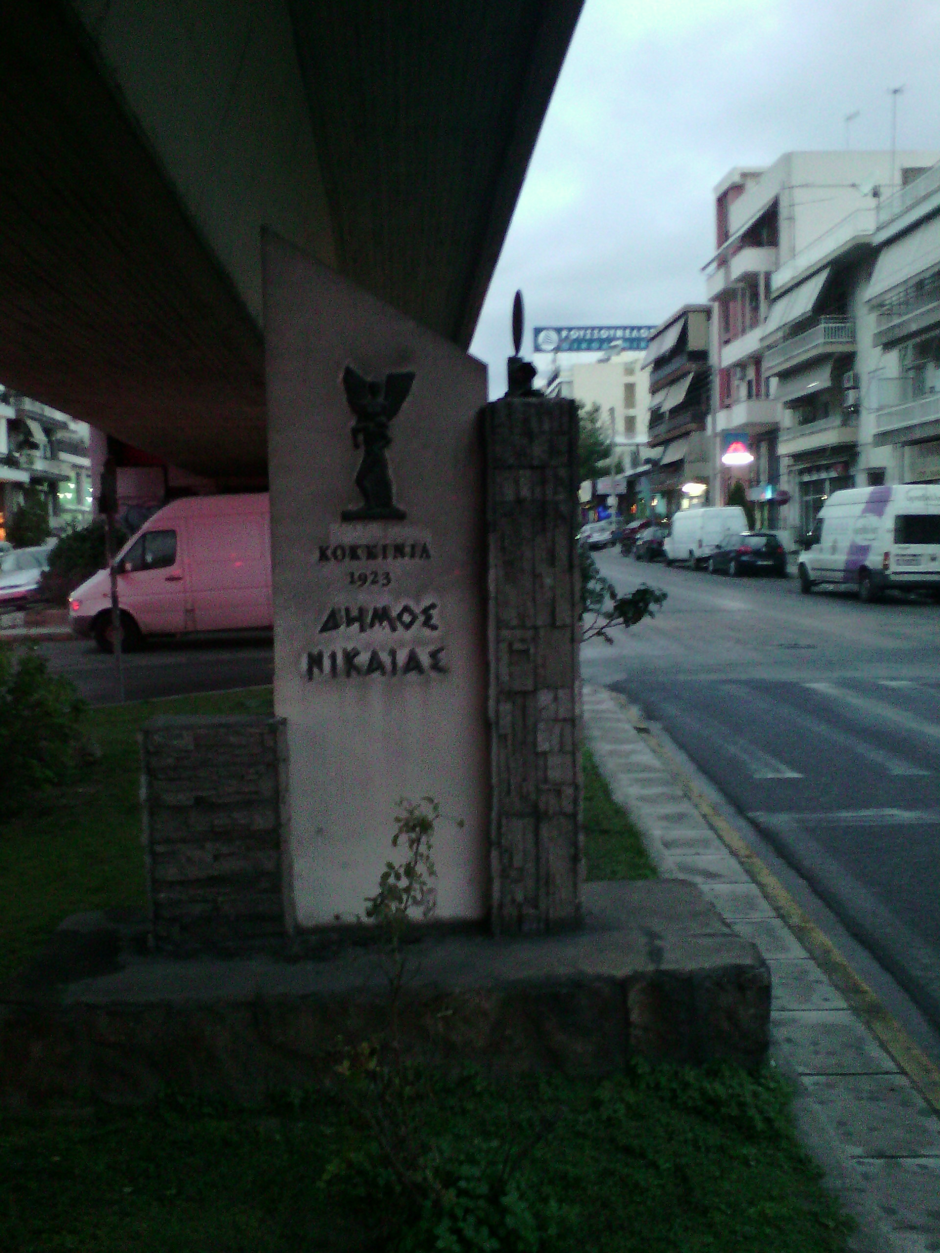 Municipality of Nikaia, Nikaia Attica. Entrance to the city.